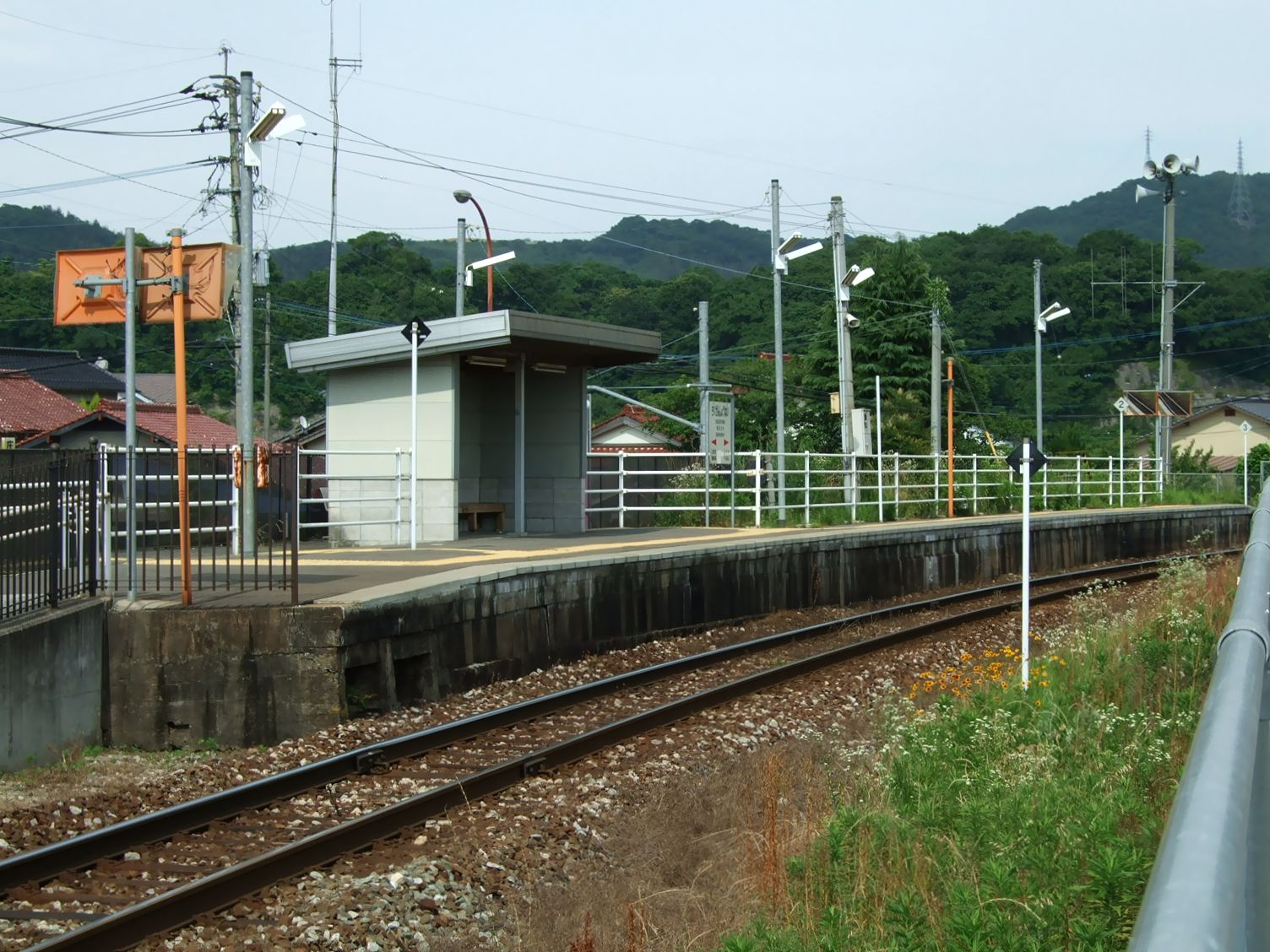 Chikuzen-Shonai Station, Gotoji Line, Kyushu Railway Company.